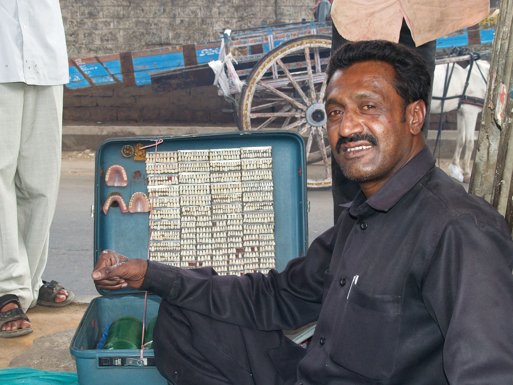 Street dentist in Bangalore with his tools and sets of teeth.